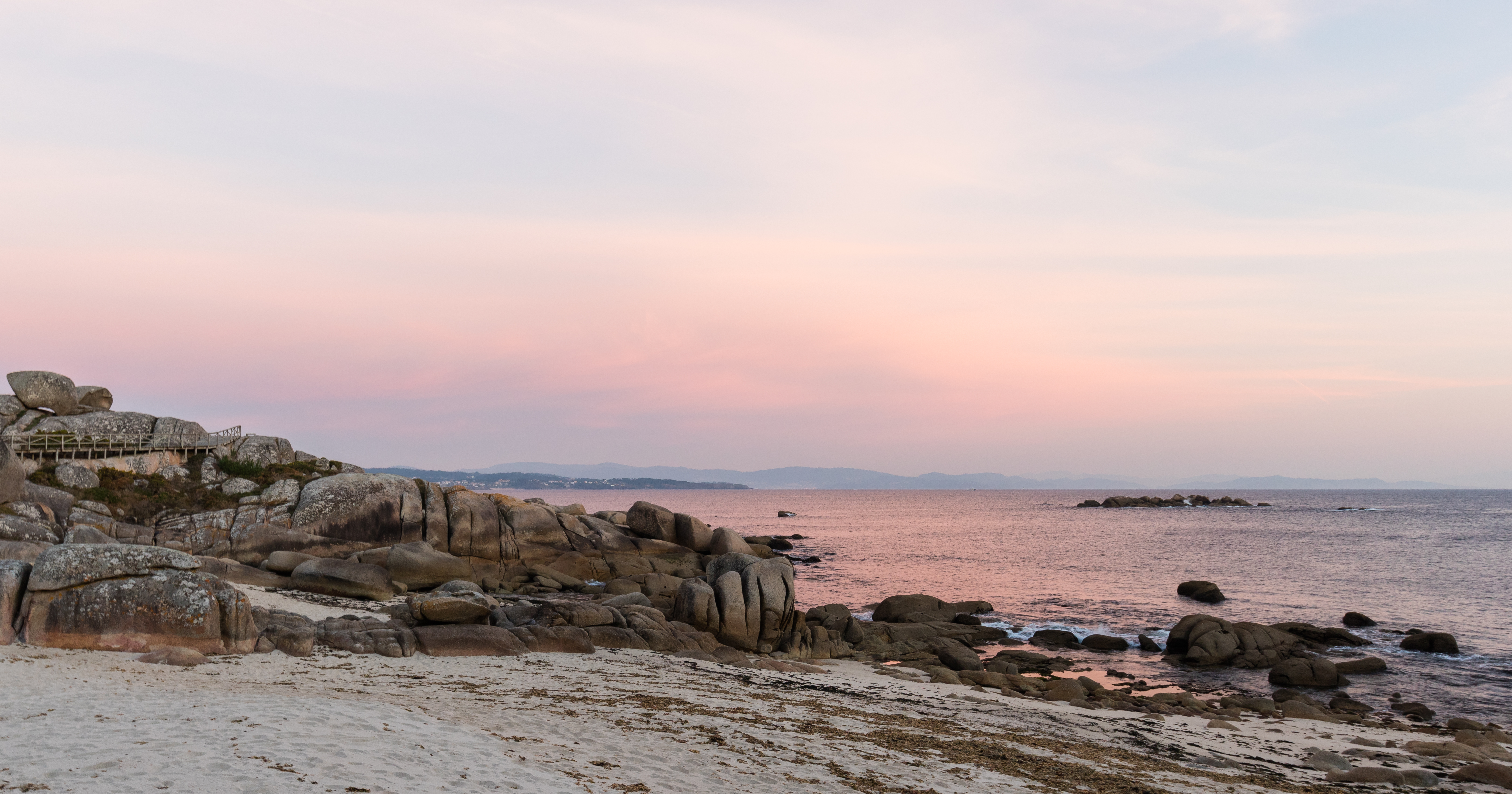 Coast of St Vicente, El Grove, Pontevedra, Spain